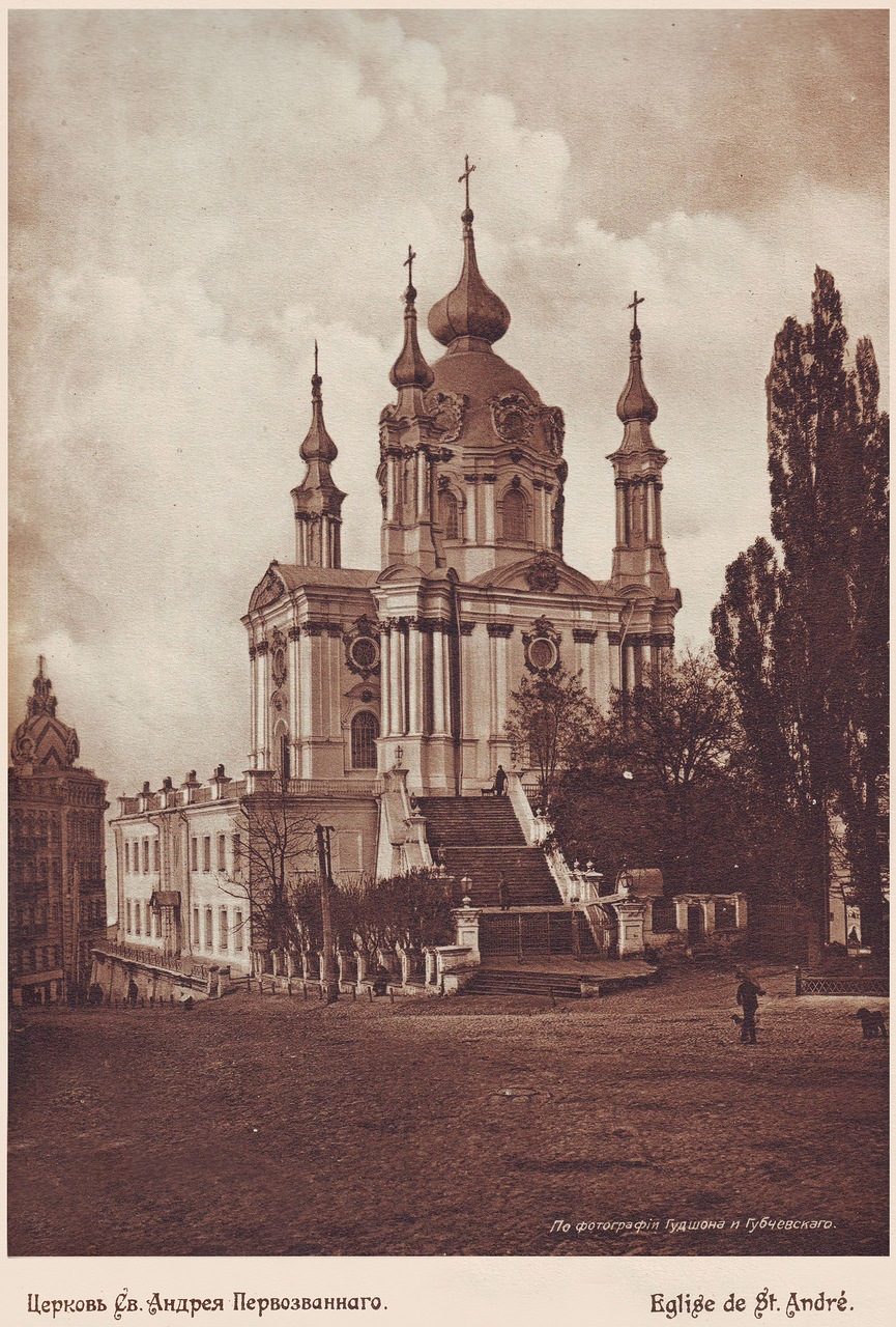 St Andrew's Church, Kiev